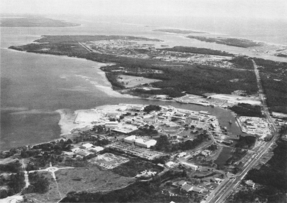 Aerial view of the U.S. Navy Naval Coastal Systems Center at Panama City, Florida (USA), circa 1980.